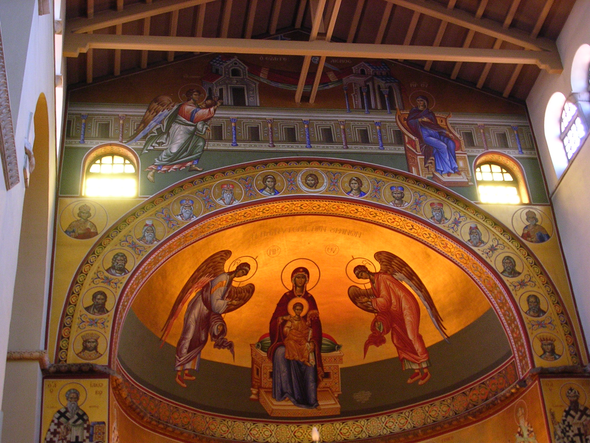 Apse in Hagios Demetrios (Church of Saint Demetrius)